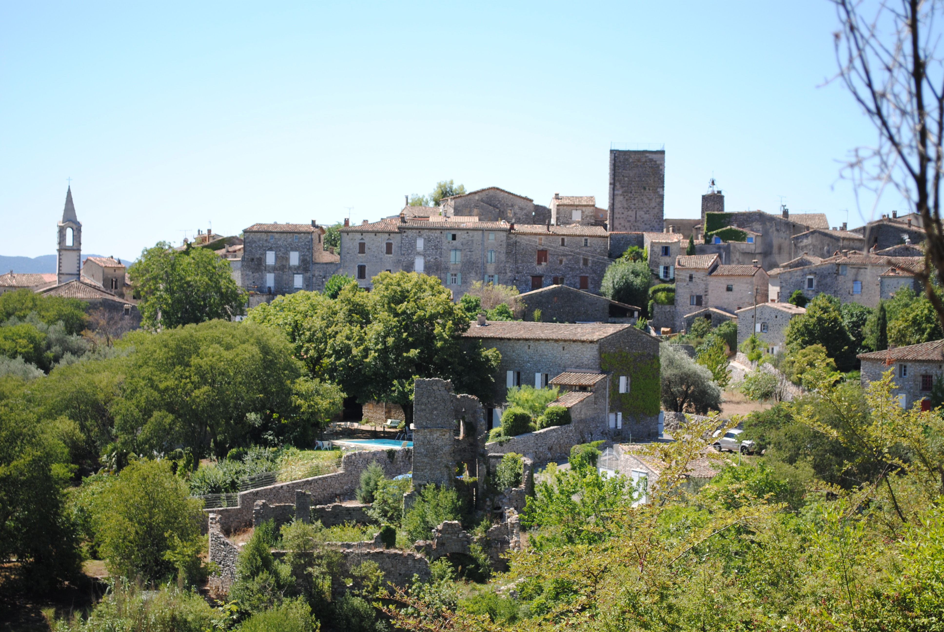 View (from the East) of medieval village of Durfort. One can distinguish its central tower, the temple at its right and the church at its left.